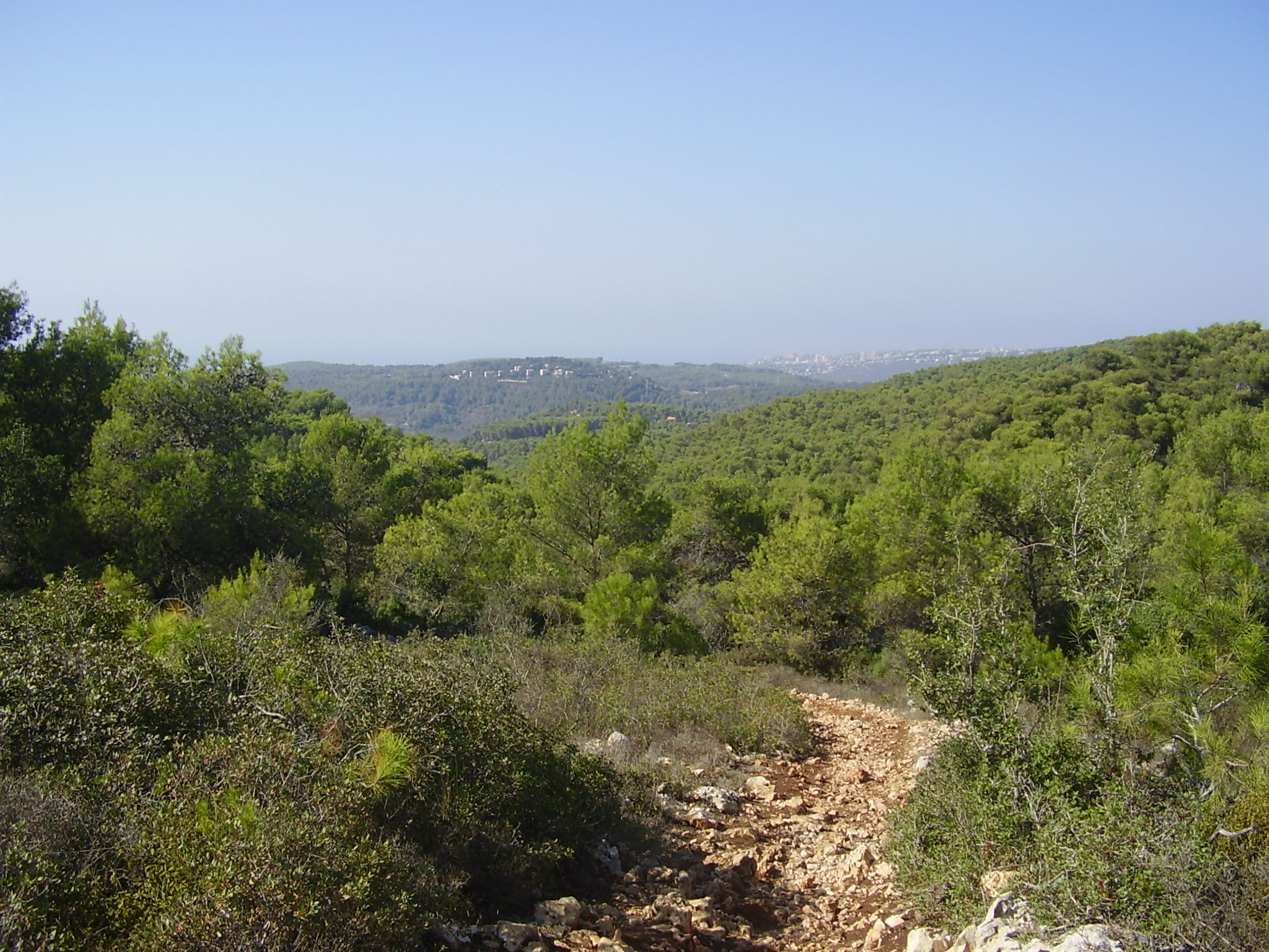 Mount Carmel, israel